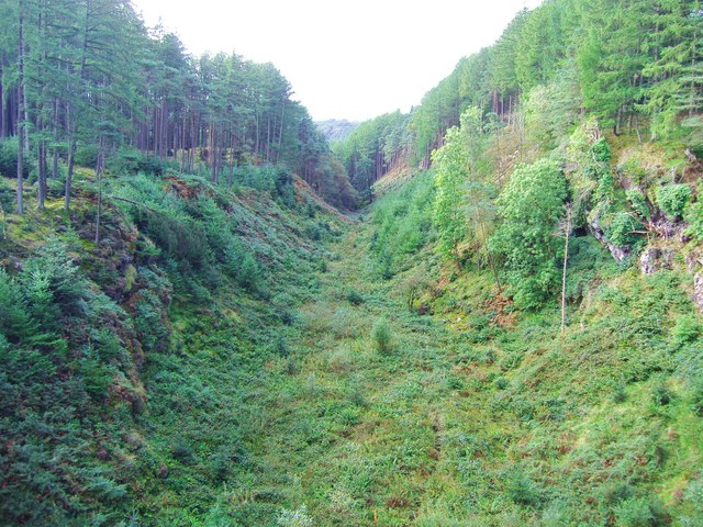 Glen of the Bar This steep valley lies just to the south of the A712. This view is taken from a viewing platform which overhangs one end of the valley.